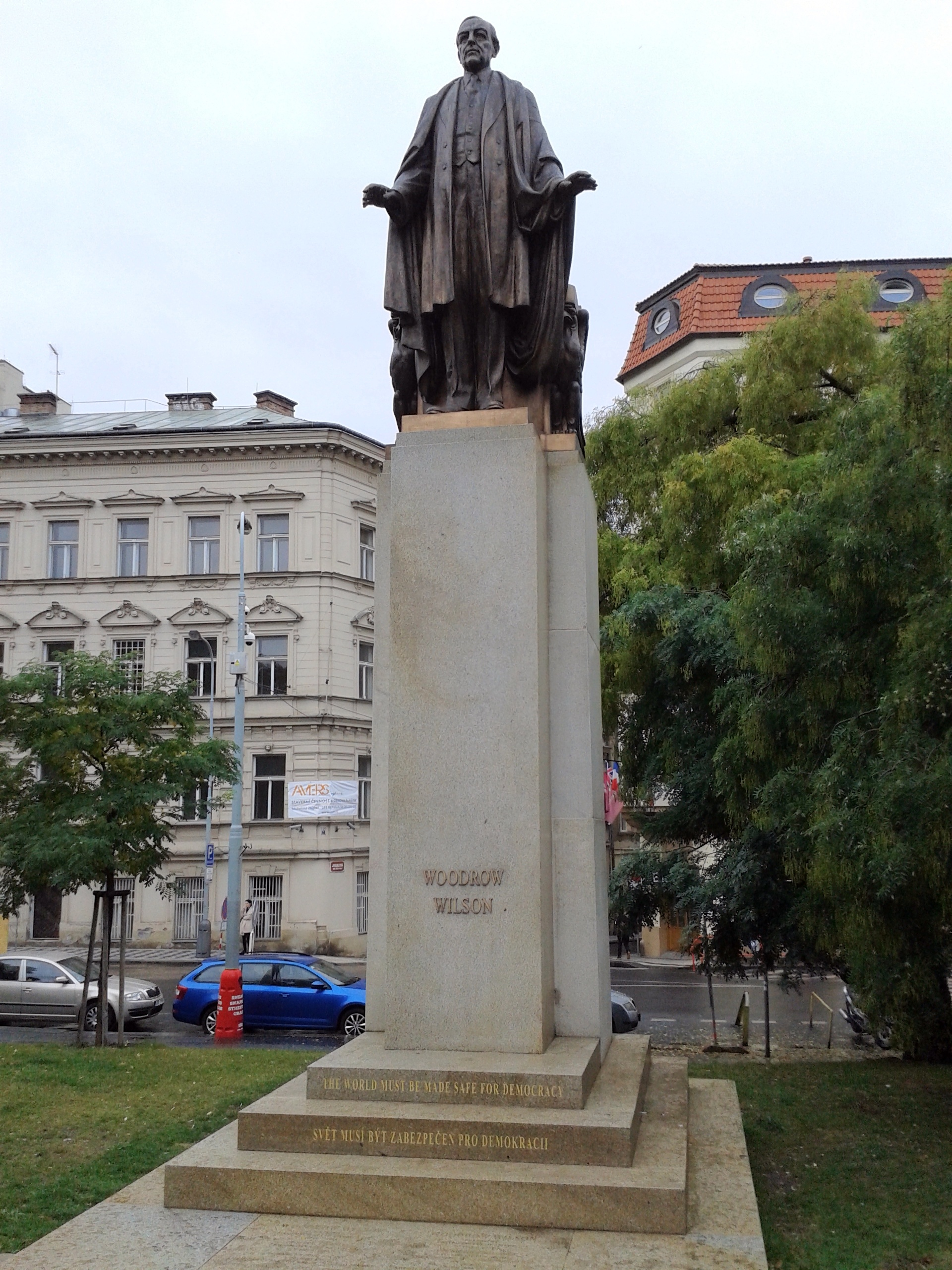 Memorial to US President Thomas Woodrow Wilson (* 1856 - † 1924), a replica of the original work (from 1928) by Albín Polášek (* 1879 - † 1965) - sculptor of the Czech origin. Authors replicas from 2011: Vaclav Frýdecký (* 1931), Michal Blažek (* 1955), Daniel Talavera (* 1969). General view. Location: Prague, Vrchlického sets, Czech Republic.